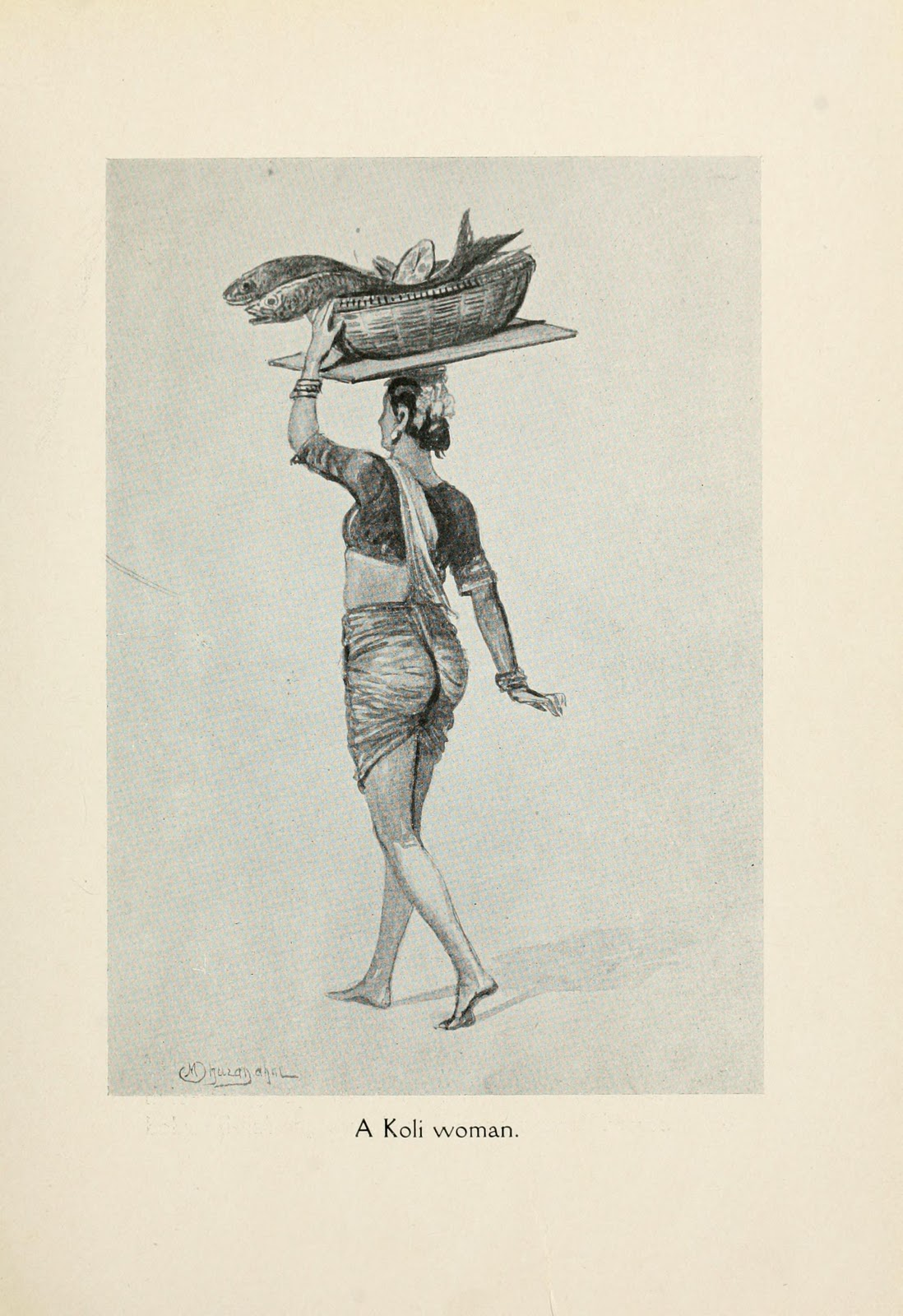 A sketch of maharashtrian koli woman